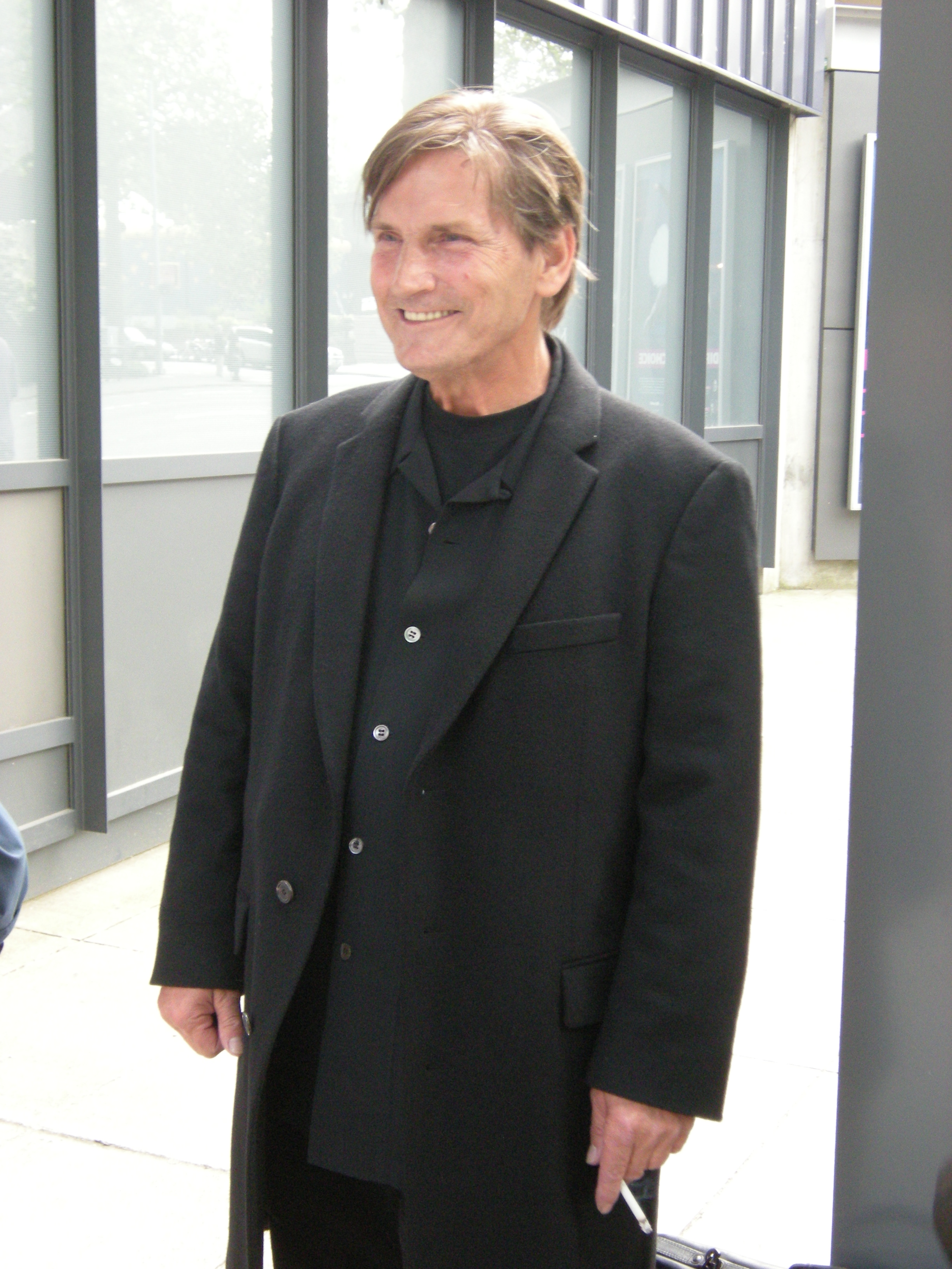 Joe Dallesandro after a showing of the documentary Little Joe (which is about him), 2009 Seattle International Film Festival.